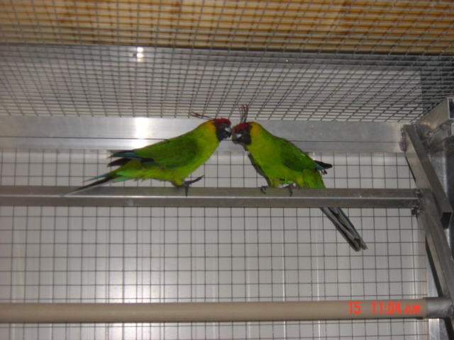 Horned Parakeet; two in a cage.